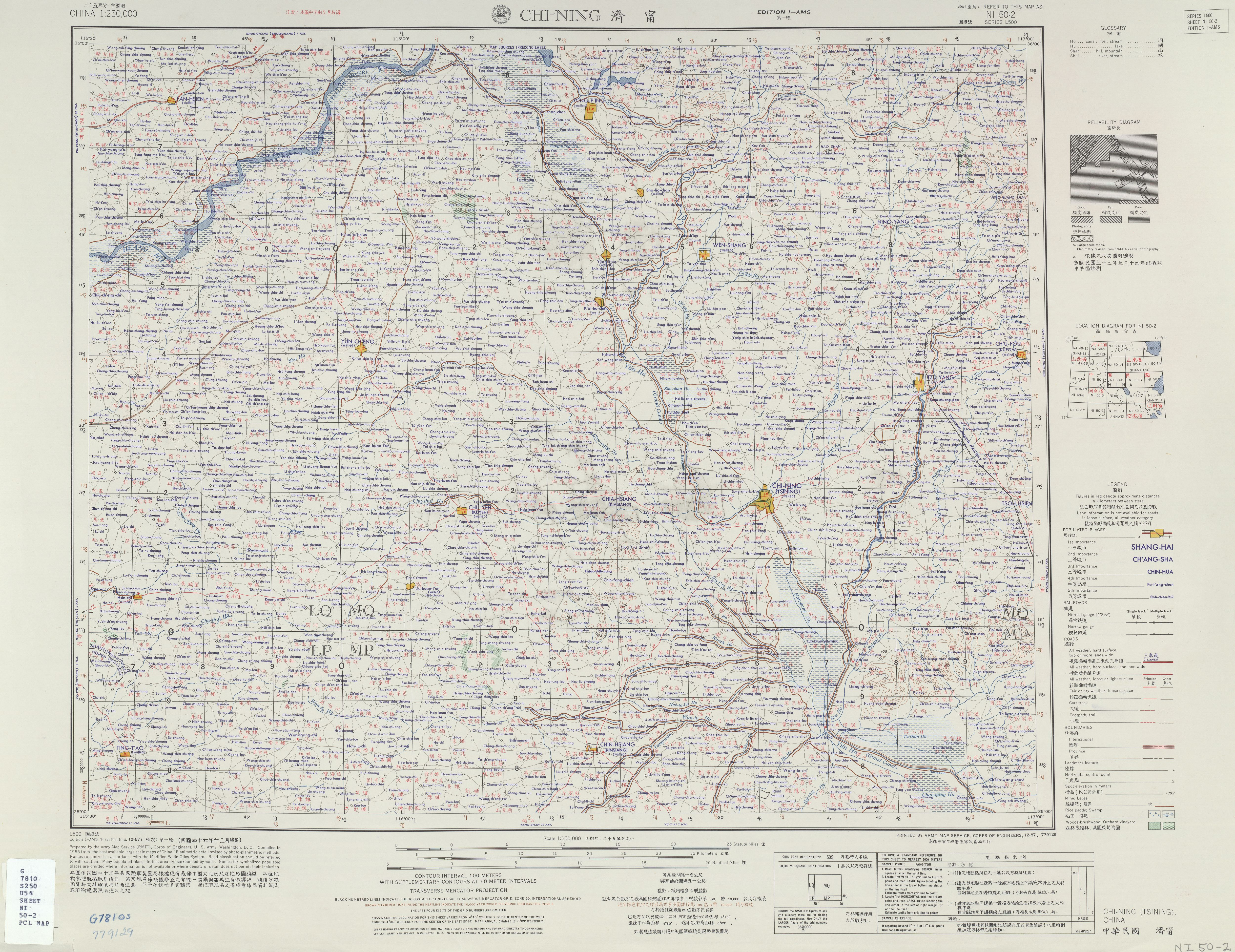 China AMS Topographic Maps